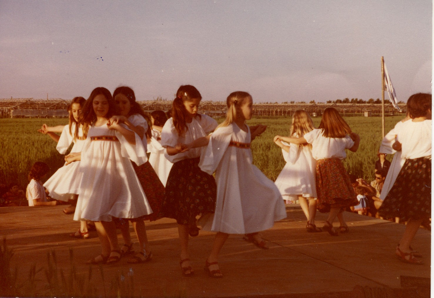 Jewish holidays